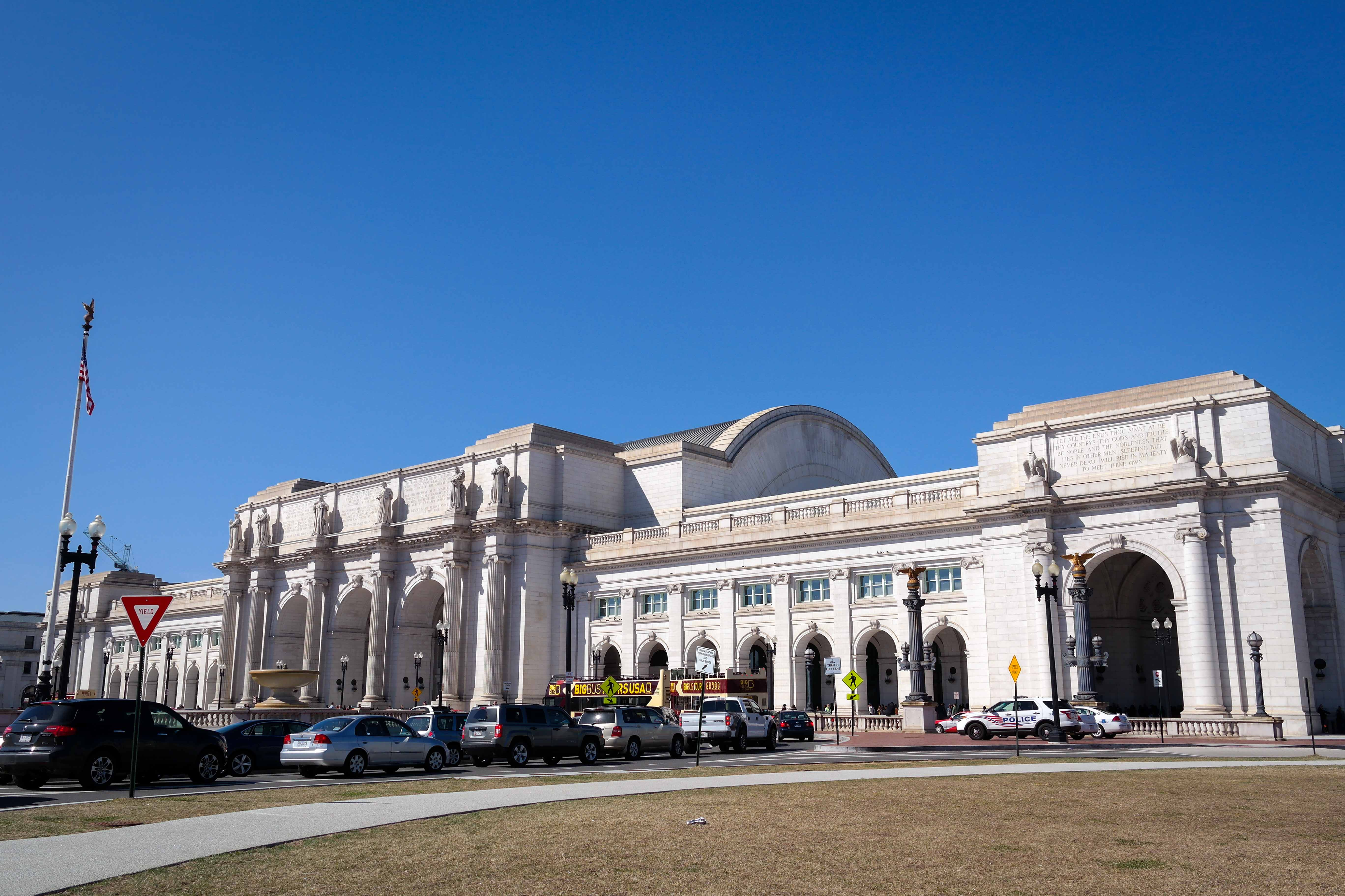 A view of Union Station in Washington, DC